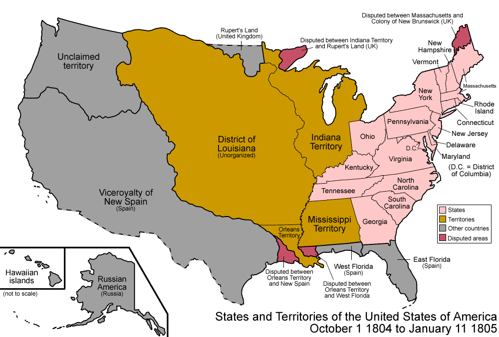 Map of the states and territories of the United States as it was from October 1804 to January 1805. On October 1 1804, the Louisiana Purchase was designated the District of Louisiana, with a small portion organized as Orleans Territory; this portion included a region disputed with New Spain. On January 11 1805, Michigan Territory was split from Indiana Territory.